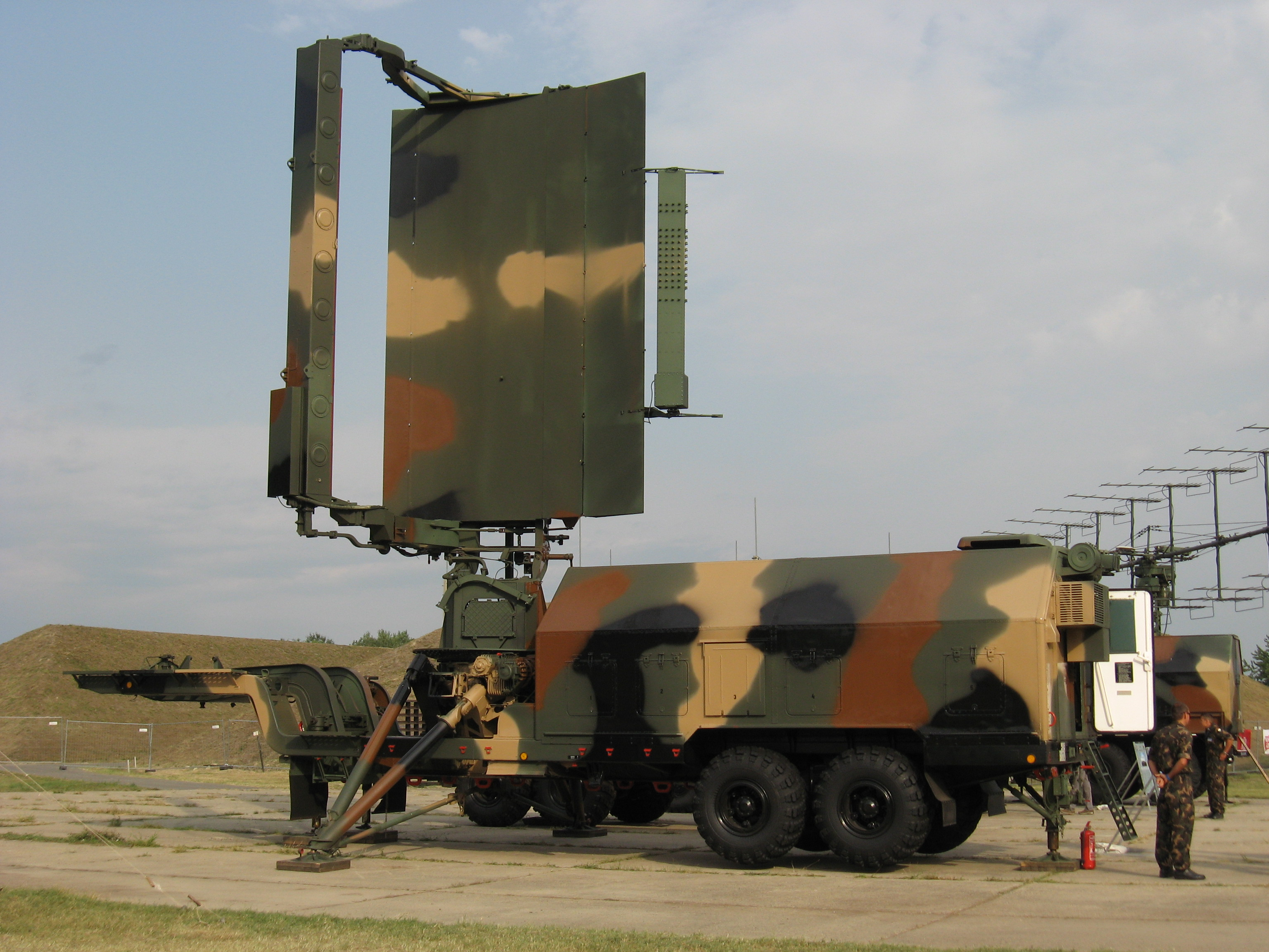 An ST-68U (19Zh6, Tin Shield) 3D radar of the Hungarian Air Force